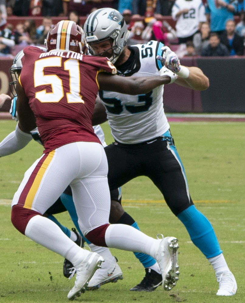 Tress Way of the Washington Redskins punts to the Carolina Panthers during a 2018 game at FedEx Field